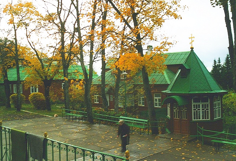 The buildings on the convent of Pühtitsa on the north-eastern Estonia.